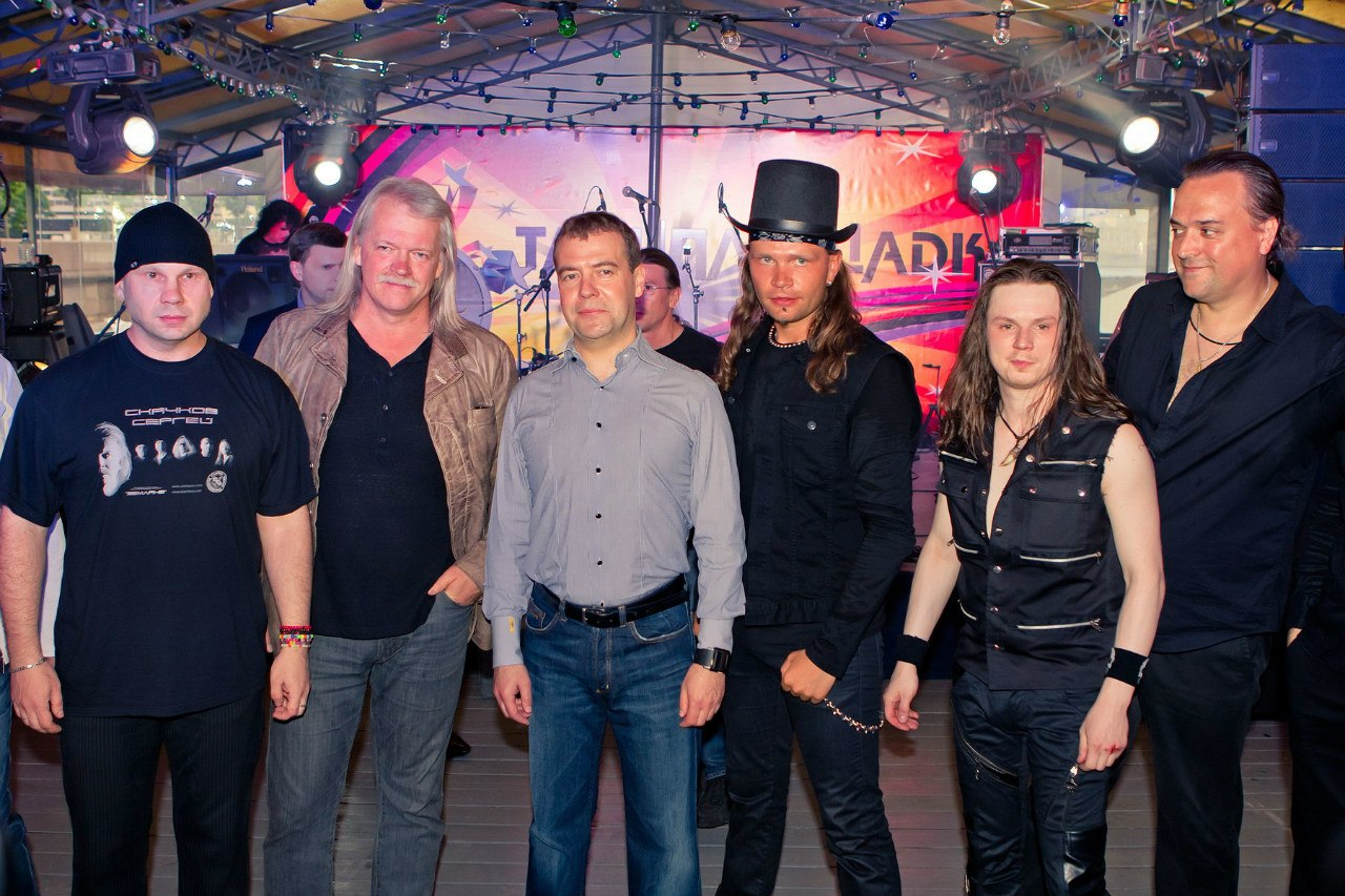 Sergey Skachkov Zemlyane + Dmitriy Medvedev prezident Russia, 16.06.2012(1)